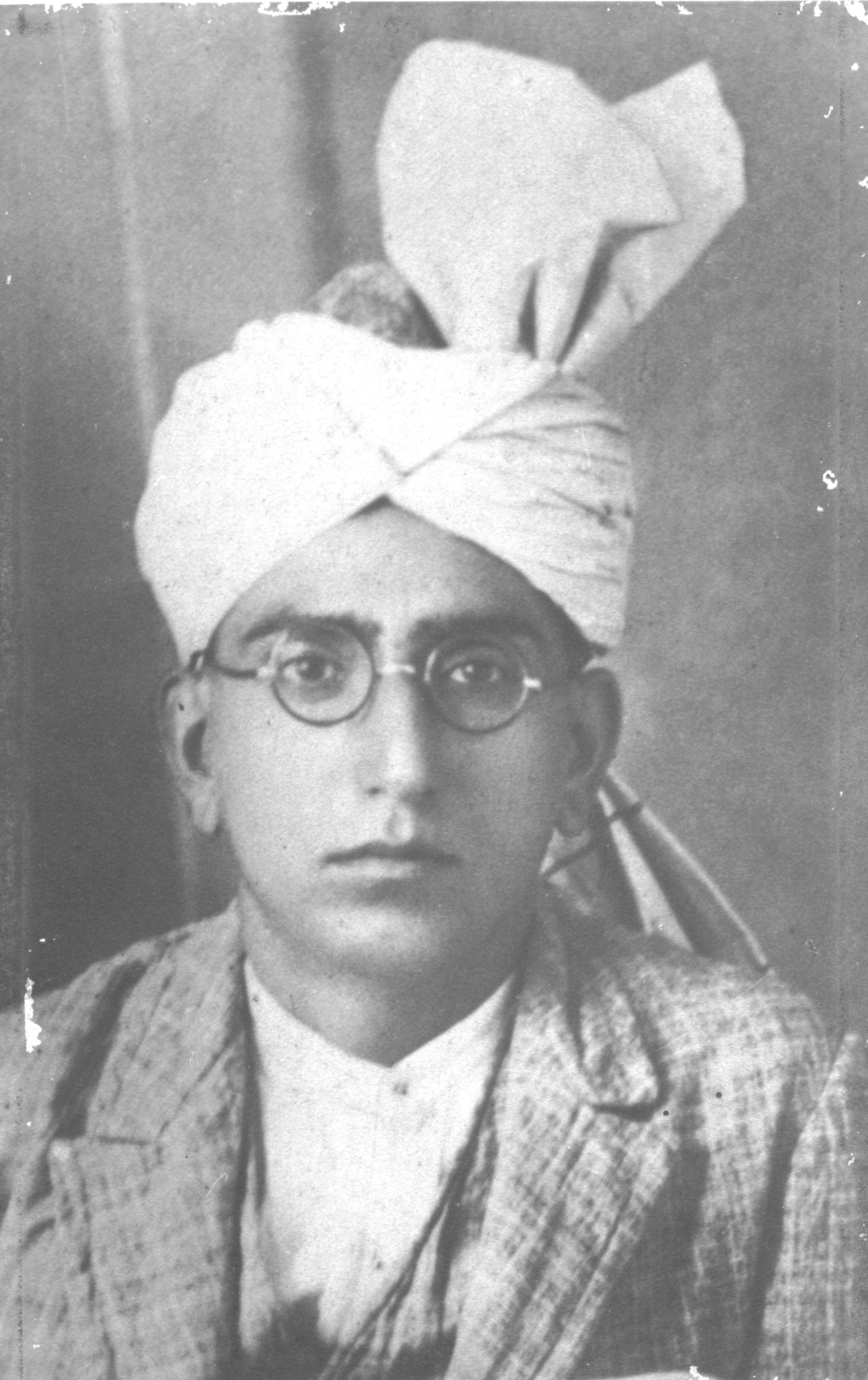 Pandit Amir Chand Bombwal